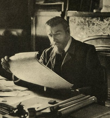 Portrait of Victor Horta c. 1900 in "La Belgique d'aujourd'hui" (The Belgium of today). Scanned by Henrotte Damien on January 13 2007